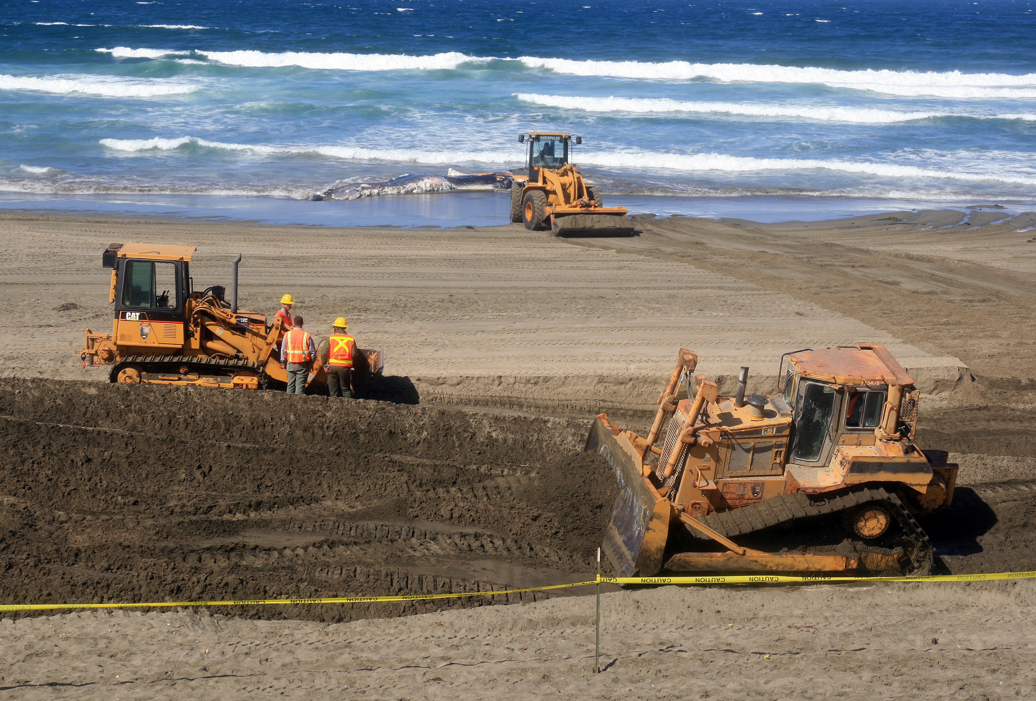 Preparations for burial of a whale washed ashore on Ocean Beach